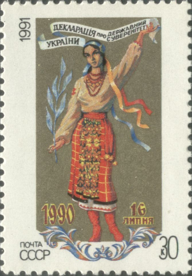 Stamp of the USSR. The declaration about state sovereignty of the Ukraine, 1991